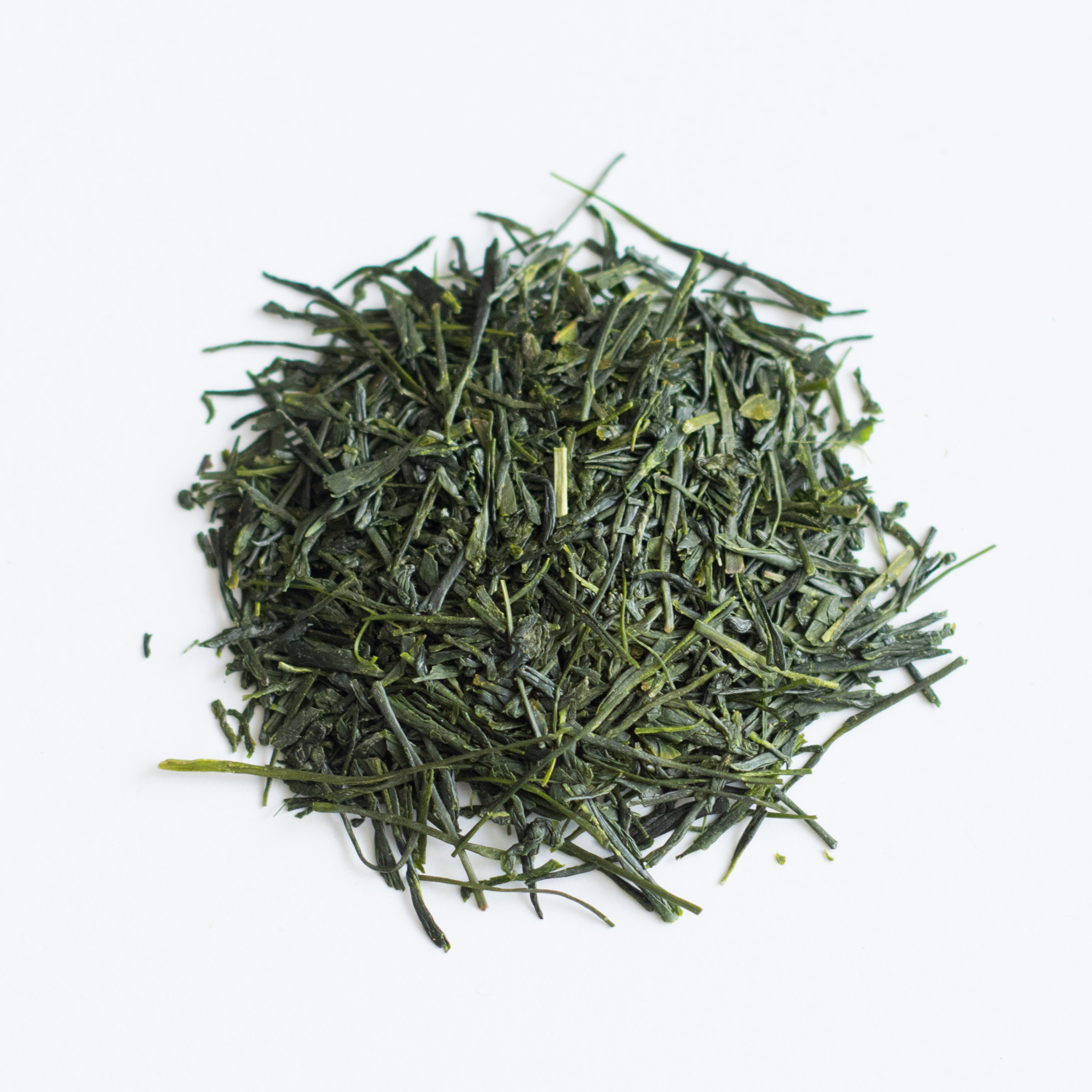 Lightly steamed sencha from the first harvest (shincha) of 2018. Grown in Uji, this tea was made using the Yabukita variety of the tea plant. This particular tea was distributed by the Tsuen tea shop in Uji.